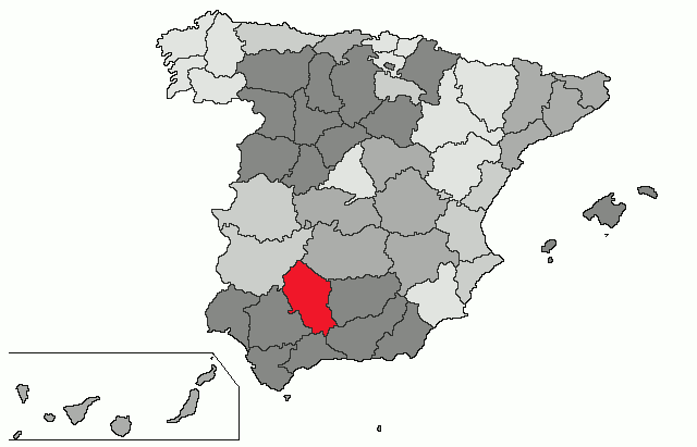 Map of the province of Cordova (Spain)